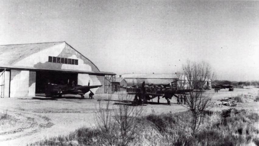 U.S. Marine Corps Grumman F7F-3N Tigercat night fighter of Marine night fighter squadron VMF(N)-531 at the former Japanese Nan Yuan airfield, Peiping, China, in December 1945.